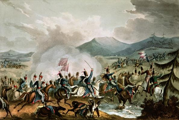 Battle of Morales, 2nd June, 1813: painted by William Heath (1795–1840), engraved by Thomas Sutherland (1785–1838)